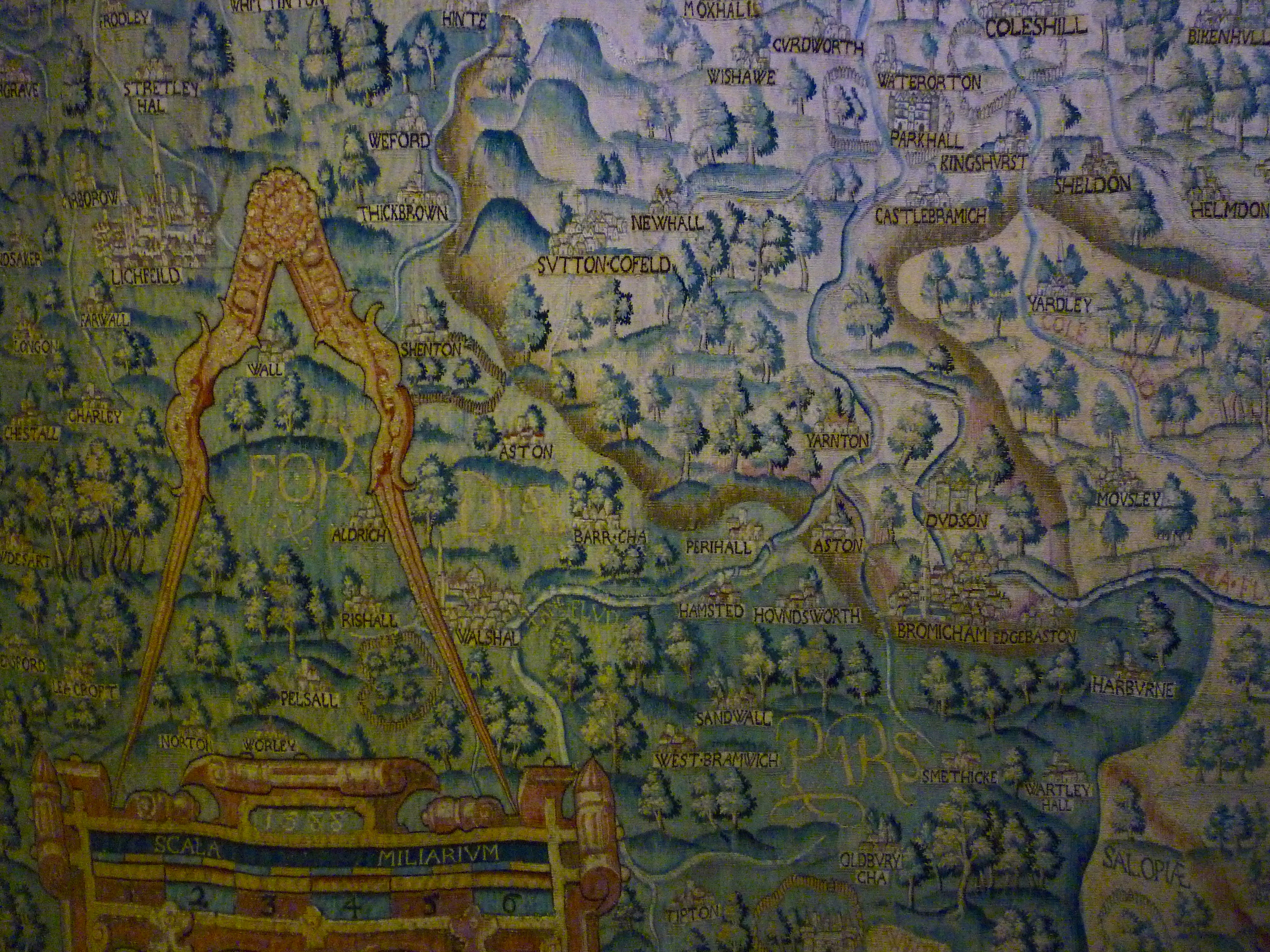 Detail of Sheldon Tapestry in Warwick (UK)